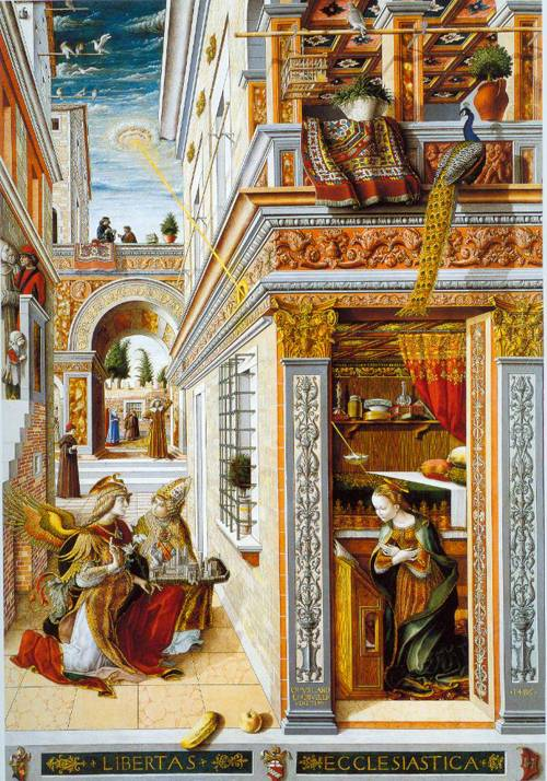 a painting by Carlo Crivelli